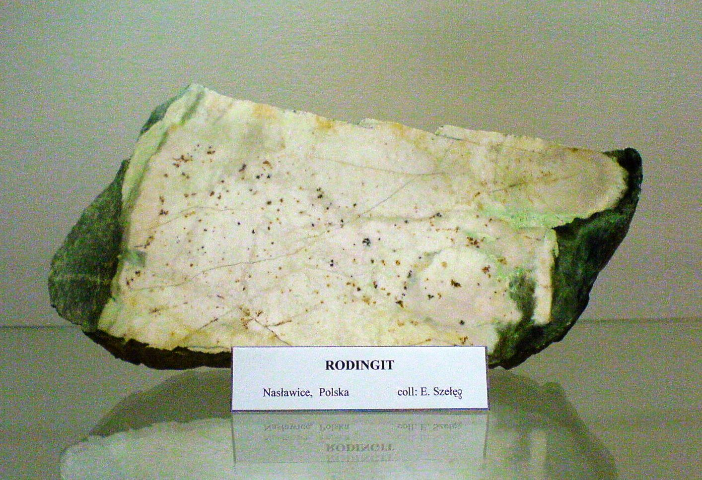 Rodingite from Nasławice near Sobotka, Lower Silesia in Poland. This rock comes from the collection of the Museum Department of Earth Sciences, Silesian University in Katowice.